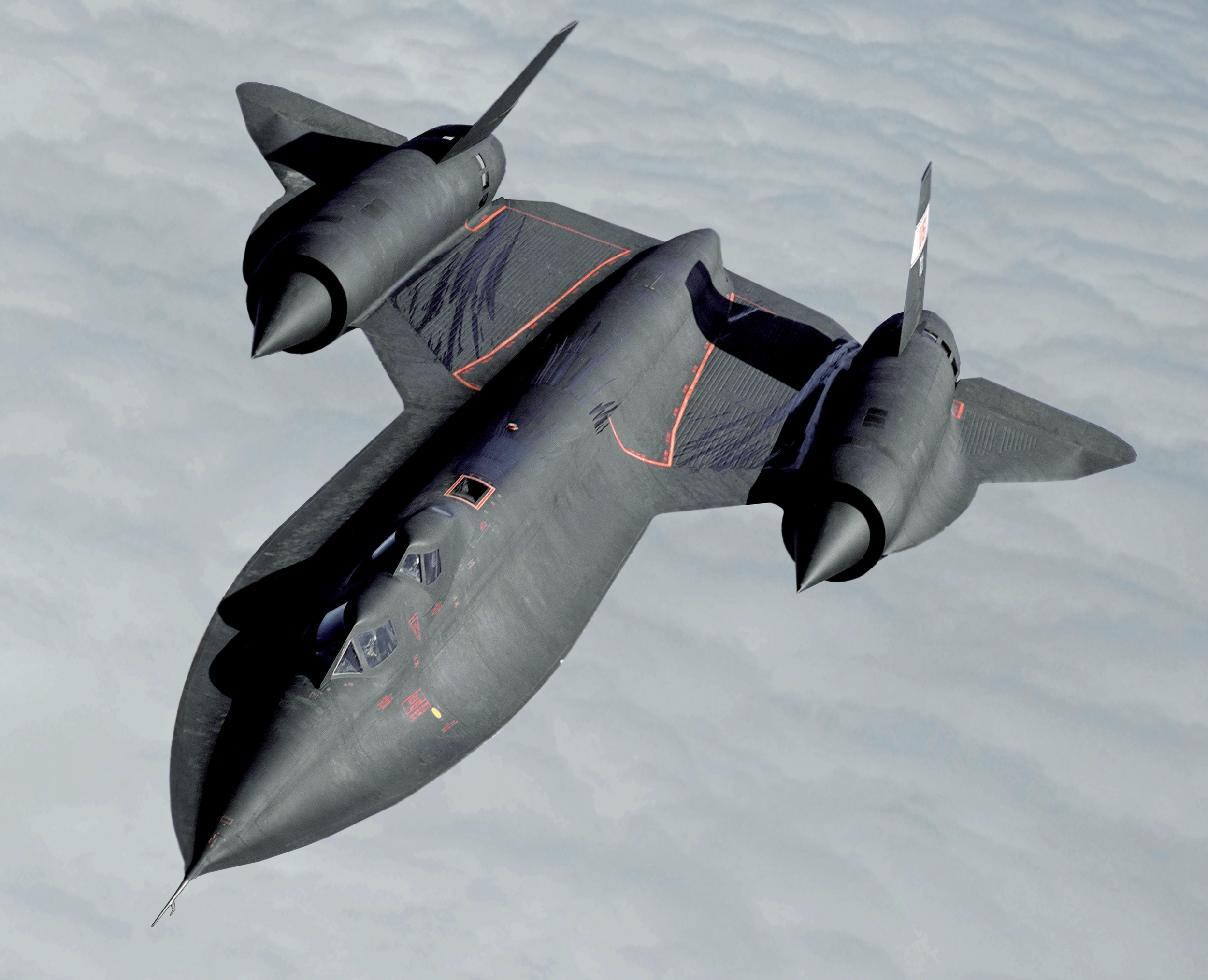 Lockheed SR-71 Blackbird (modified)